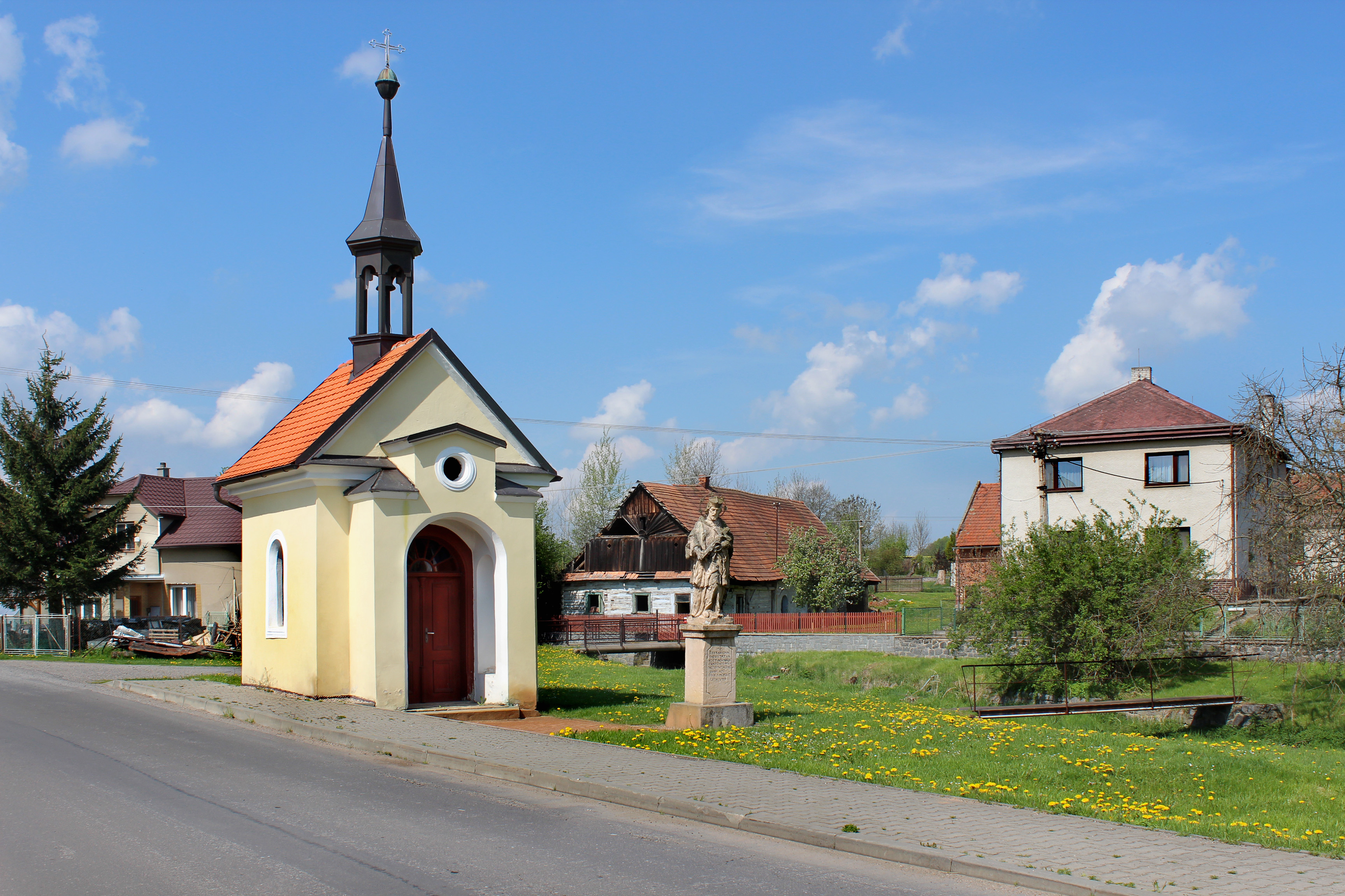 Lower part of Radčice, part of Skuteč town, Czech Republic